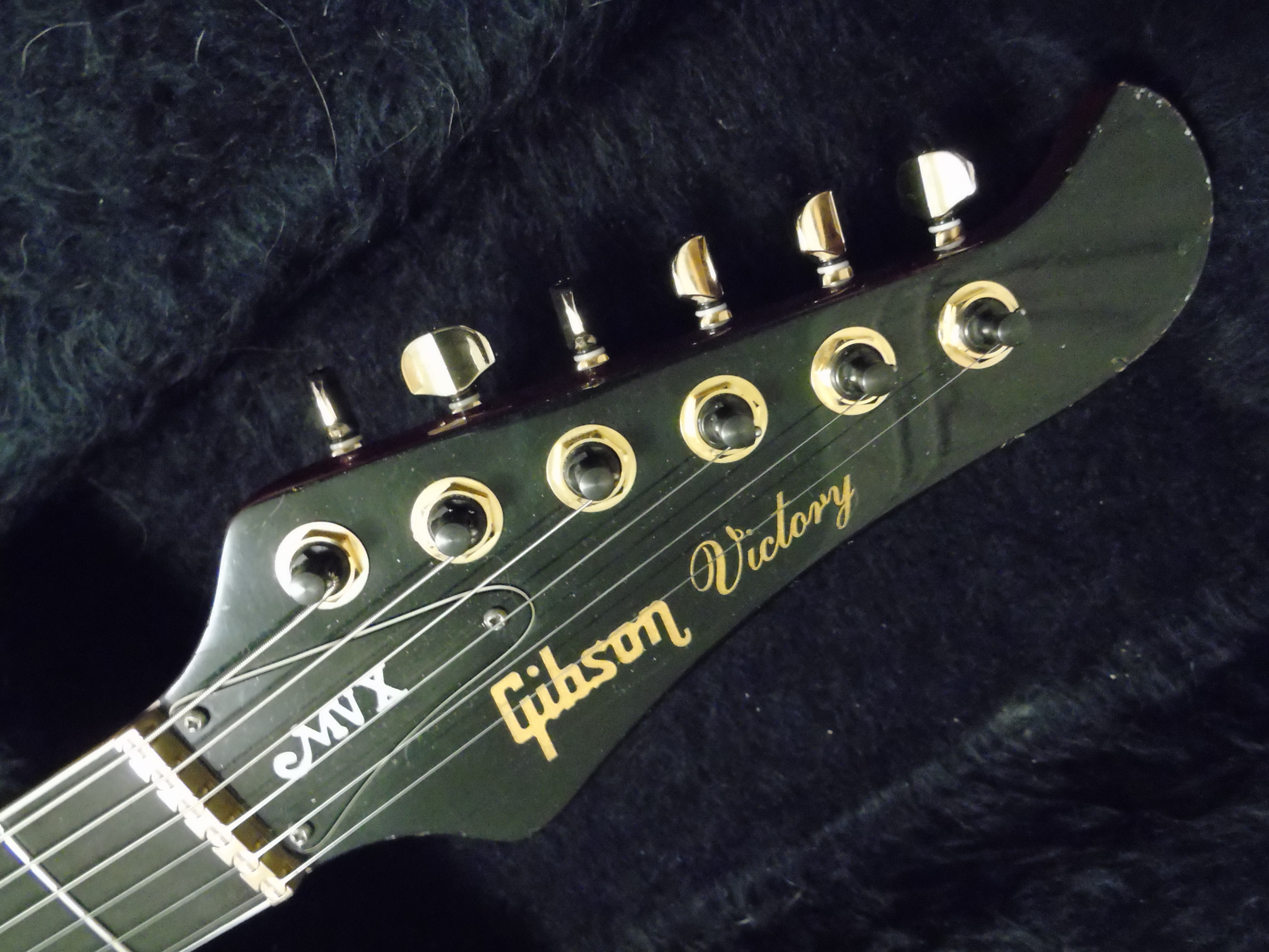 Victory MVX Headstock with Adjustable Brass Nut and Locking Self Triming Machine Heads